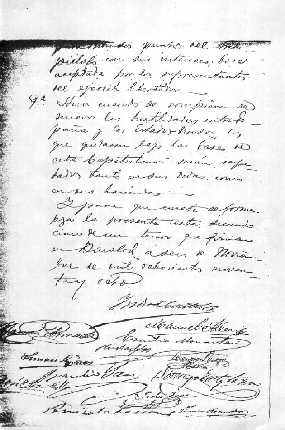 This is a copy of the last page of the Document of Surrender signed by General Lacson, General Araneta, the Spanish Governor-General, etc. on November 6, 1898 at the conclusion of the Negros Revolution.